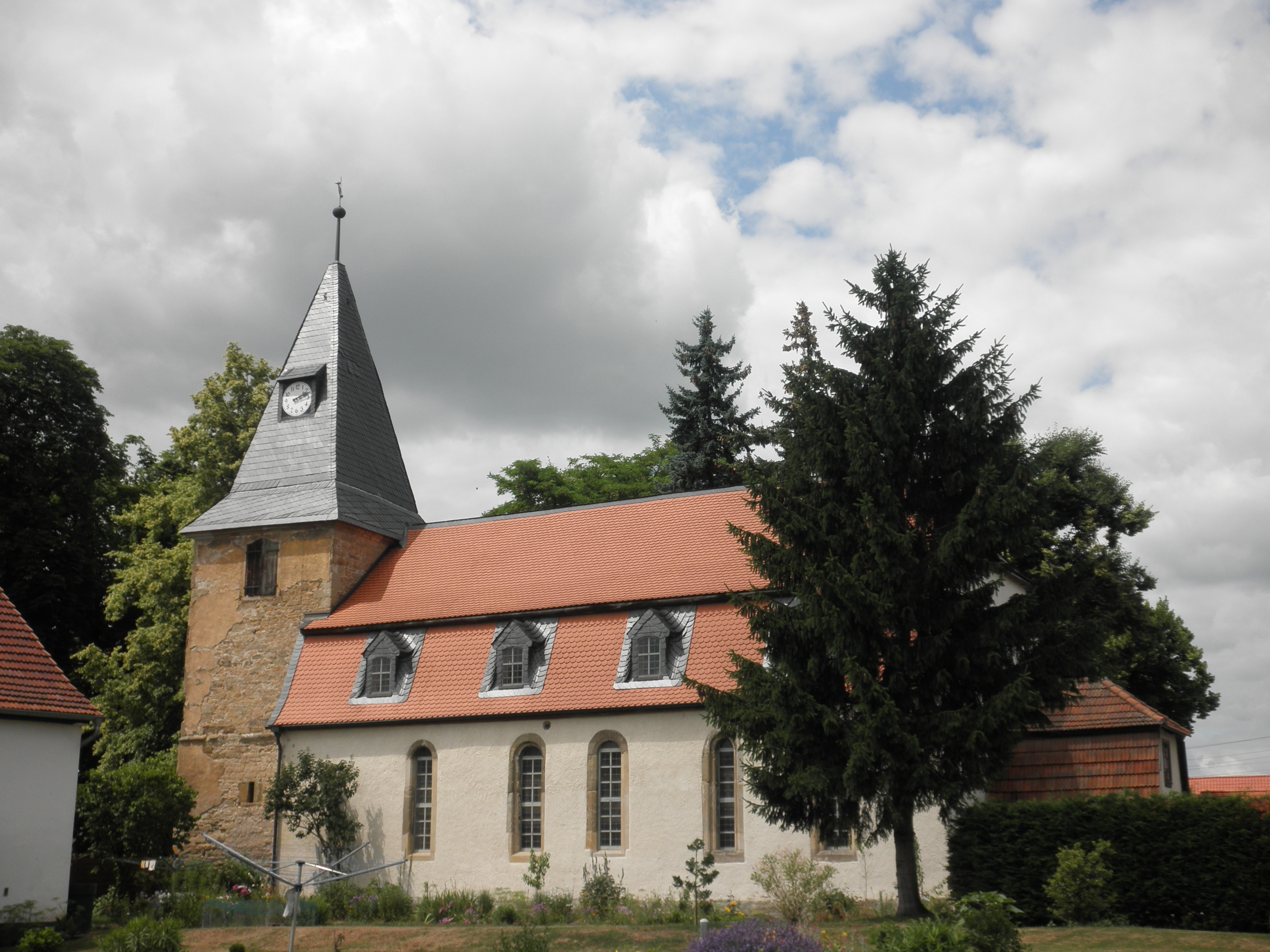 Church in Dielsdorf (Schloßvippach) in Thuringia